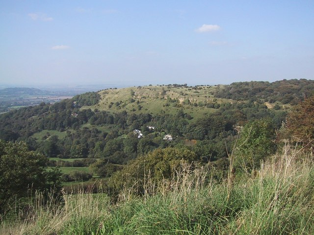 View from Barrow Wake towards Crickley Hill